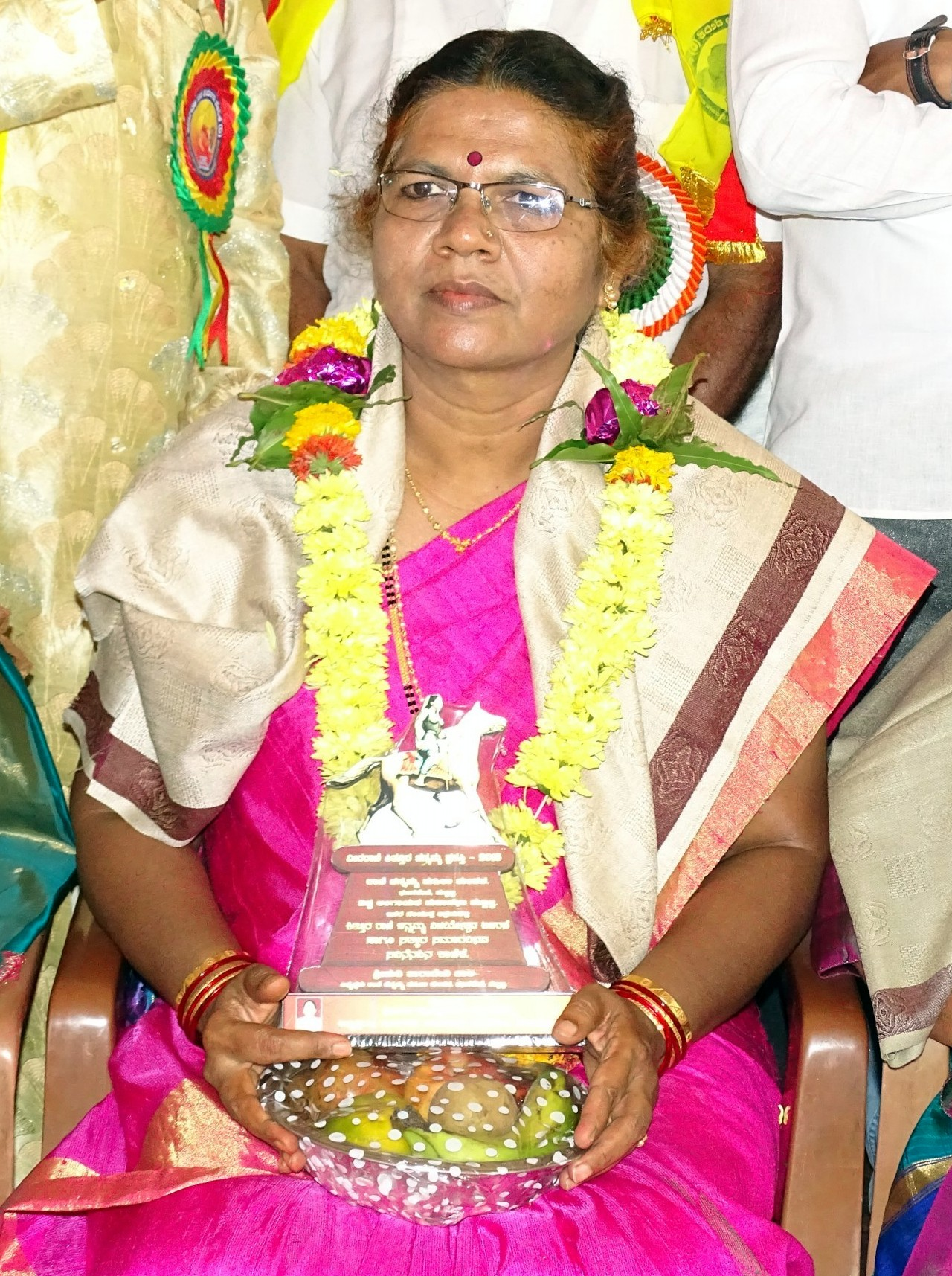 Vidushi Shashikala Dani honoured with 'Rani Chennamma' award